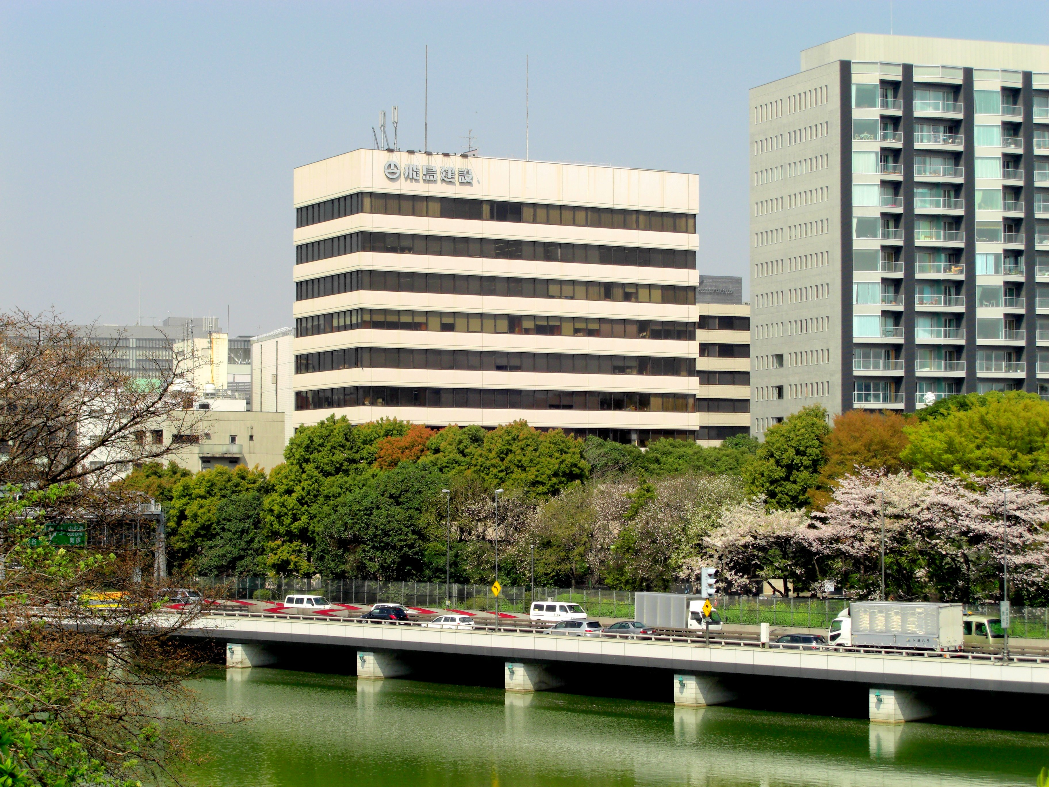 Tobishima Corporation head office